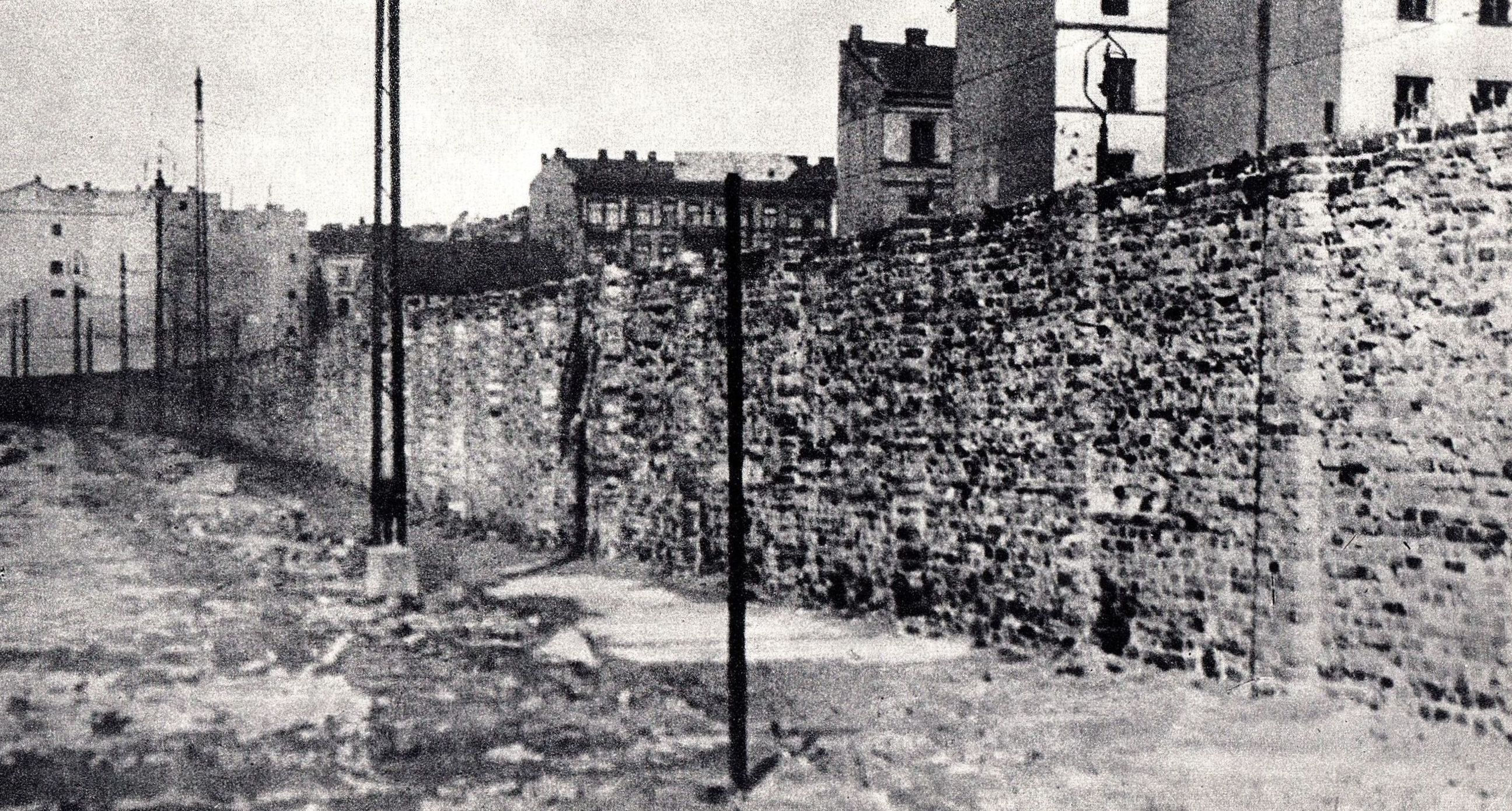 Warsaw ghetto wall (Okopowa Street?)